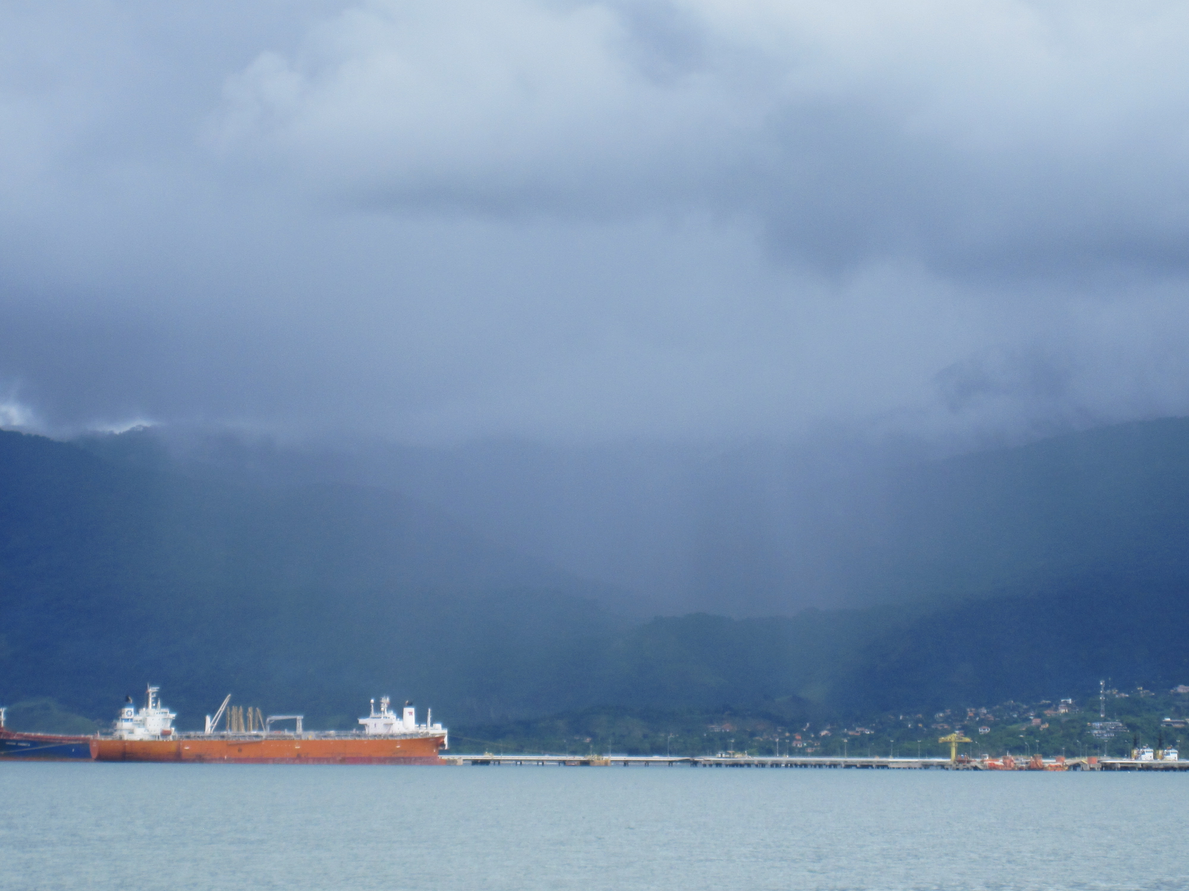 Rain falling in downtown Ilhabela, São Paulo, Brazil.